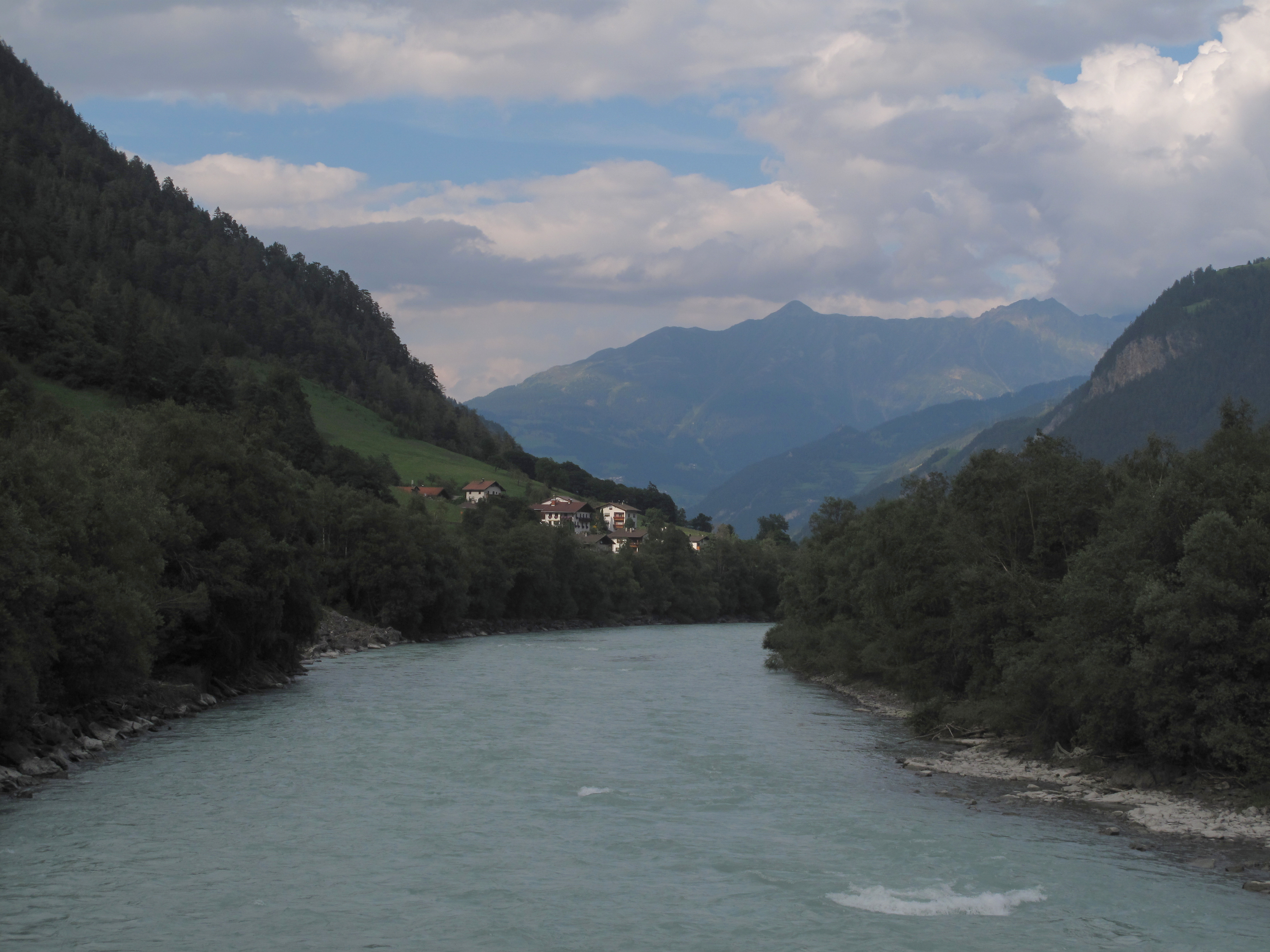 between Stein and Pfunds, river: der Inn